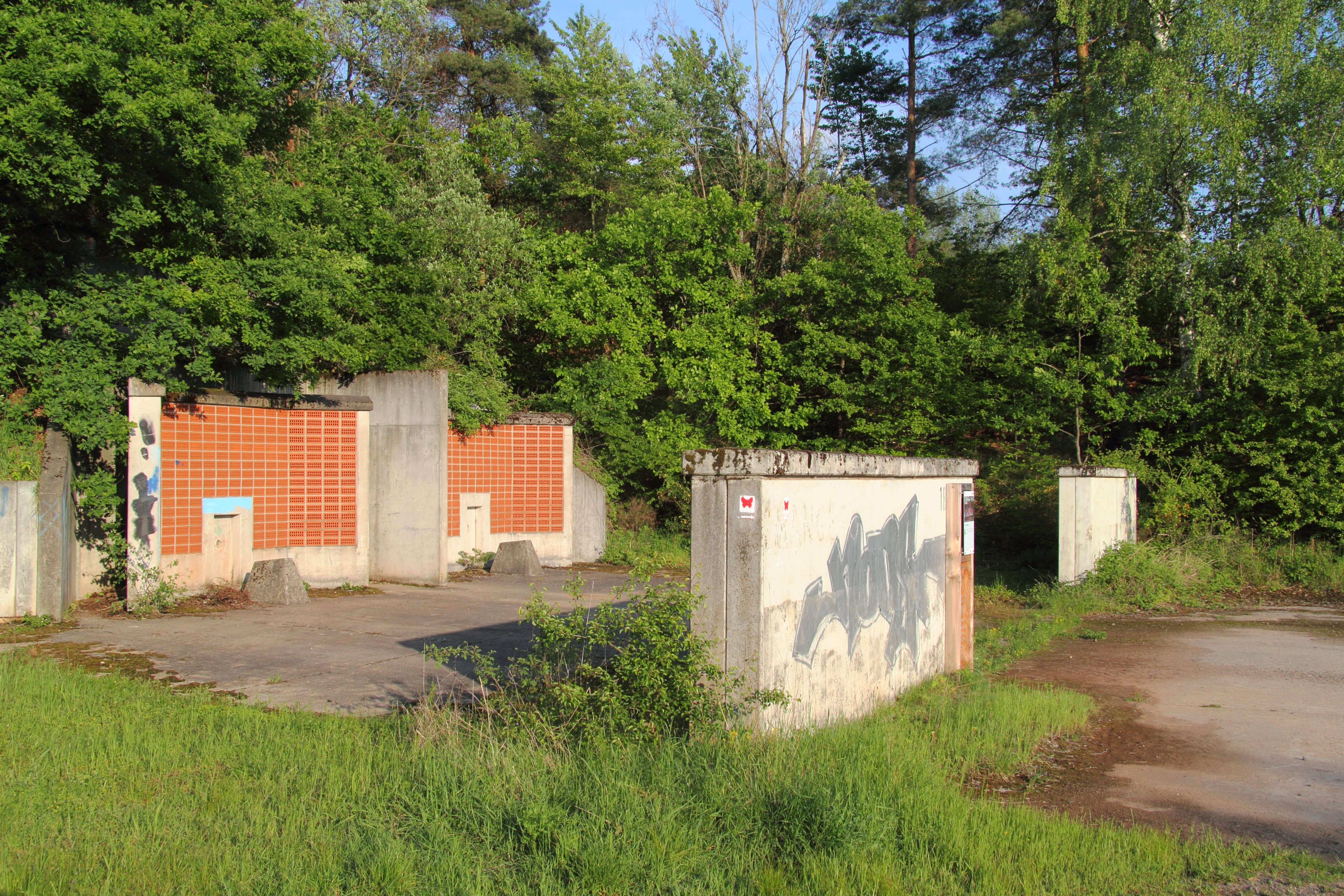 “National Nature Heritage Aschaffenburg”, nature trail in Aschaffenburg-Schweinheim (Bavaria/Germany) on the ground of a former military training area, WDPA ID 555521298